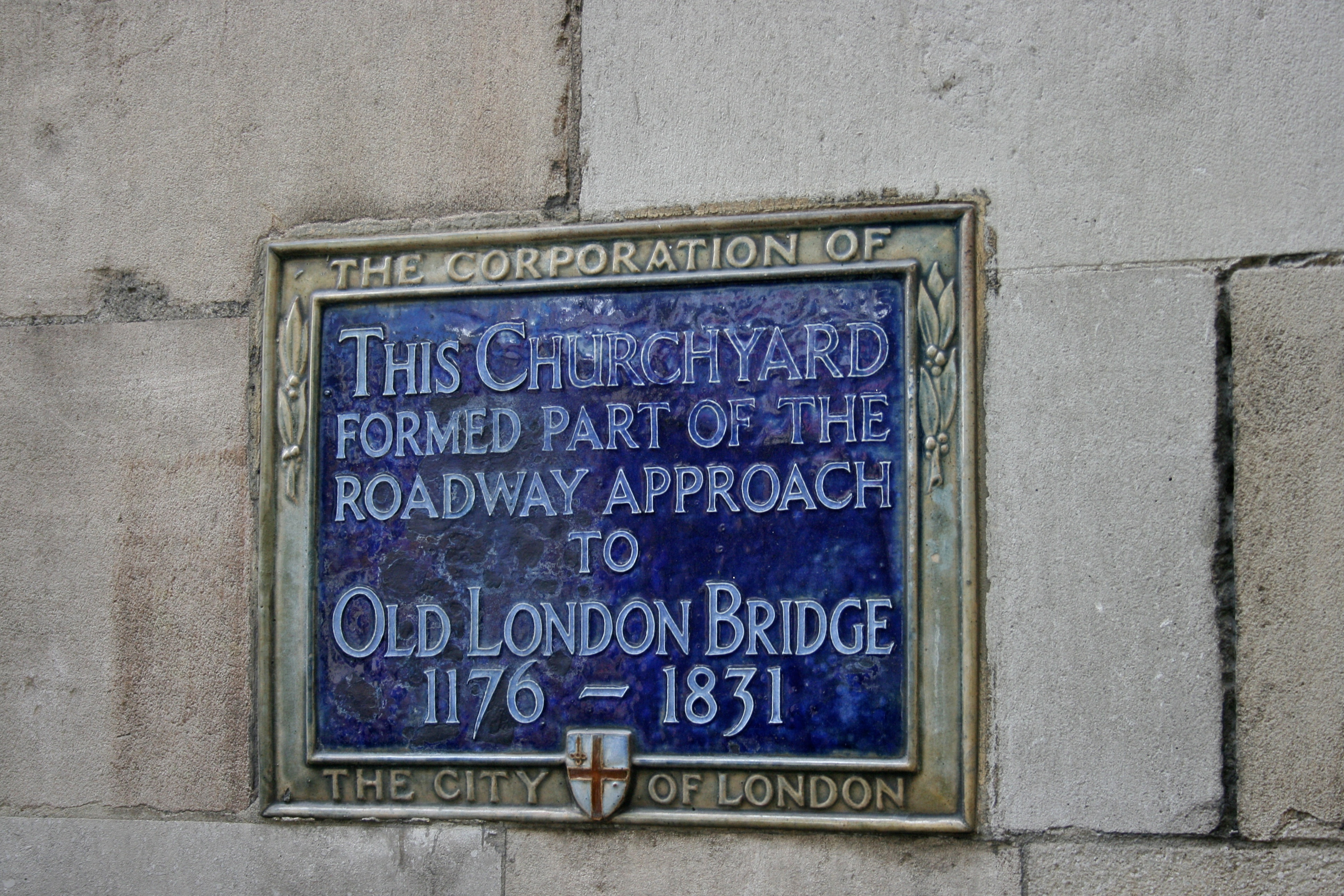 Plaque at St Magnus-the-Martyr, London, reading "This churchyard formed part of the roadway approach to Old London Bridge 1176-1831"